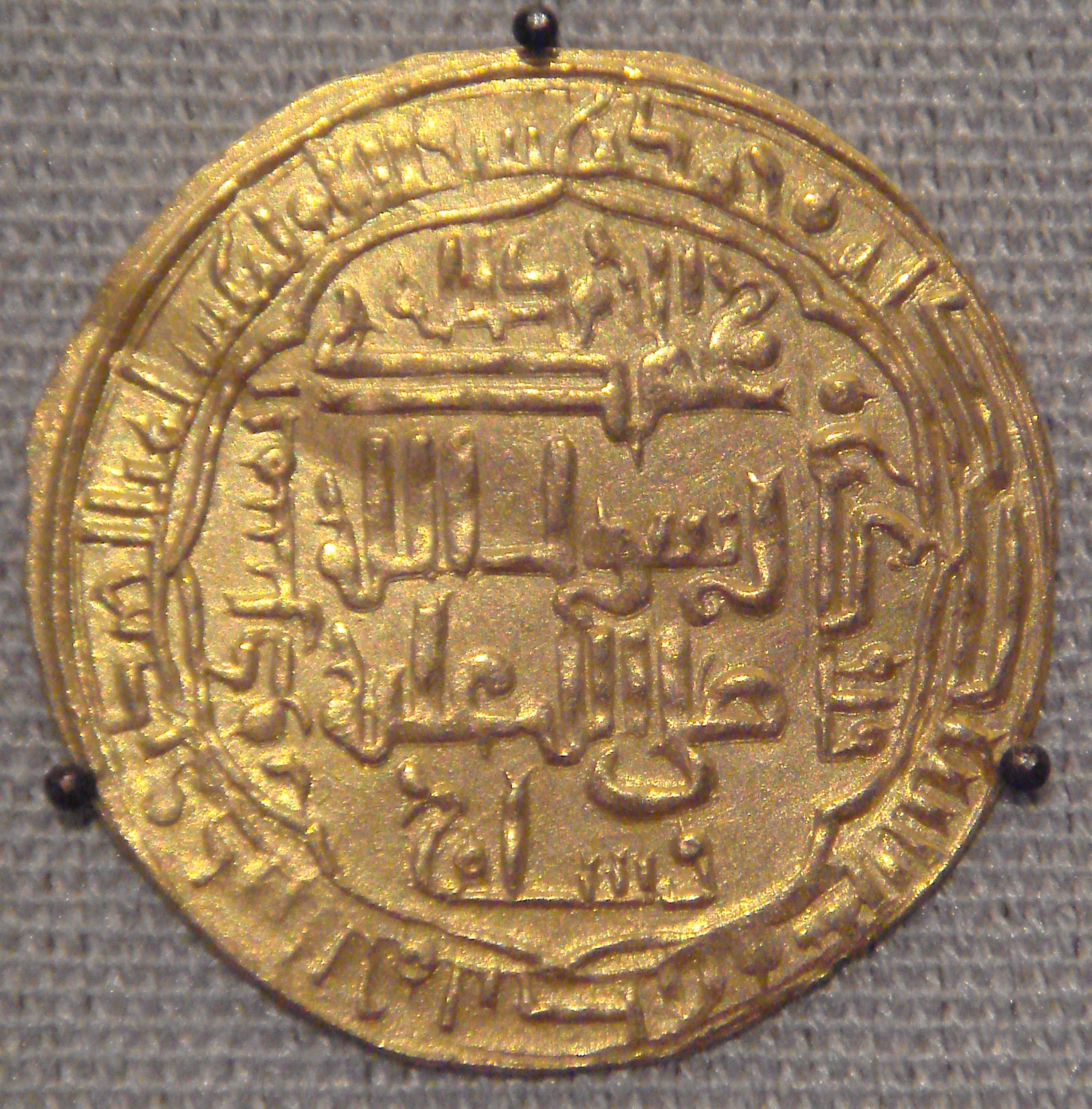 Abbasids_Baghdad_Iraq_1244